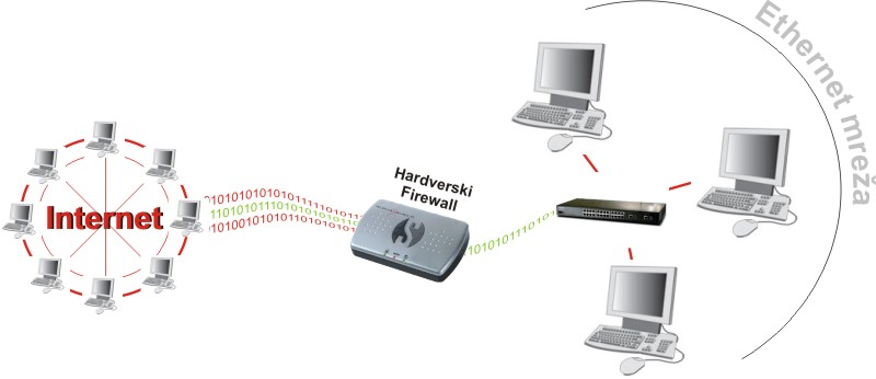 Computer firewall